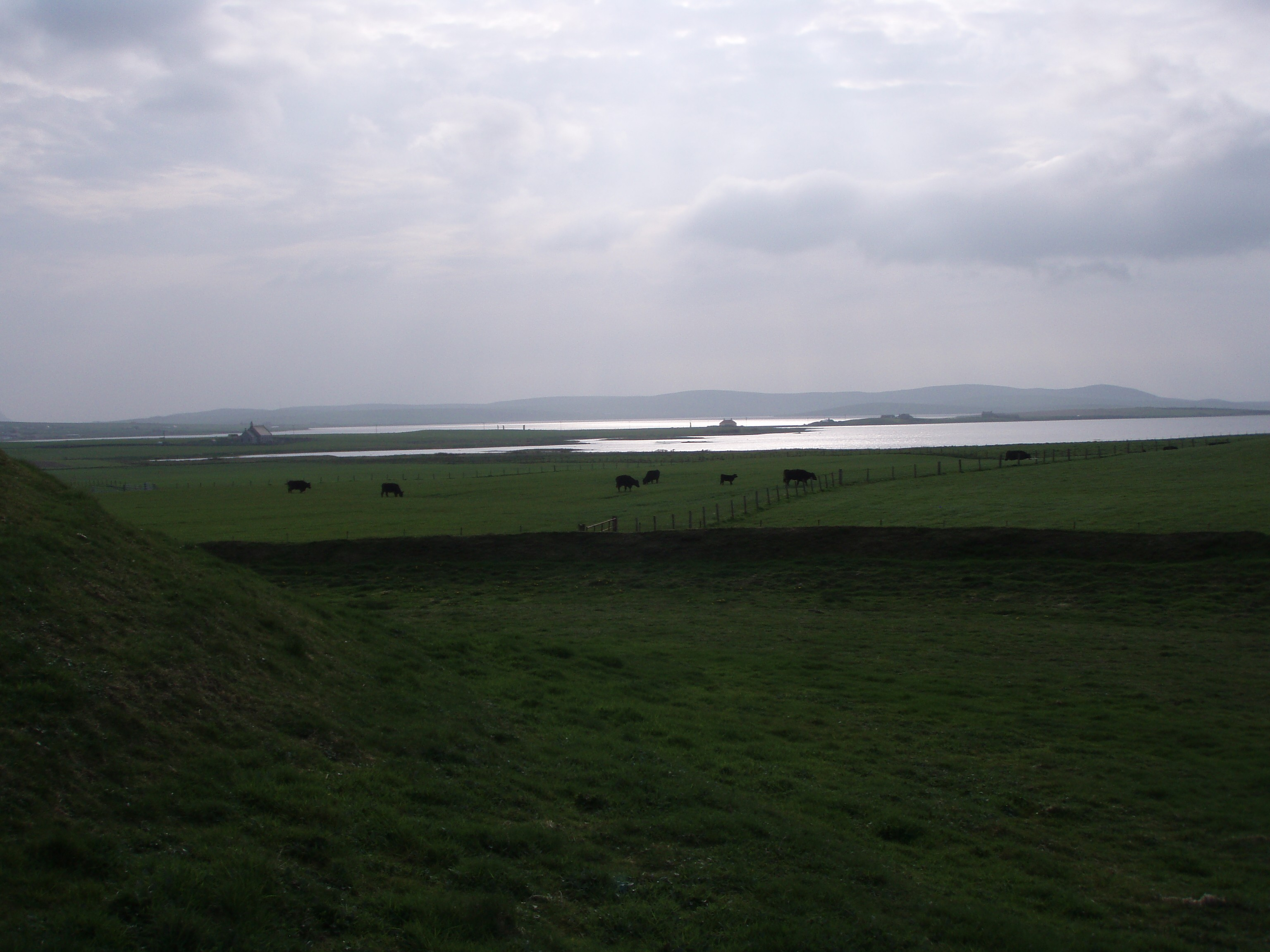 Maeshowe Orkney Islands